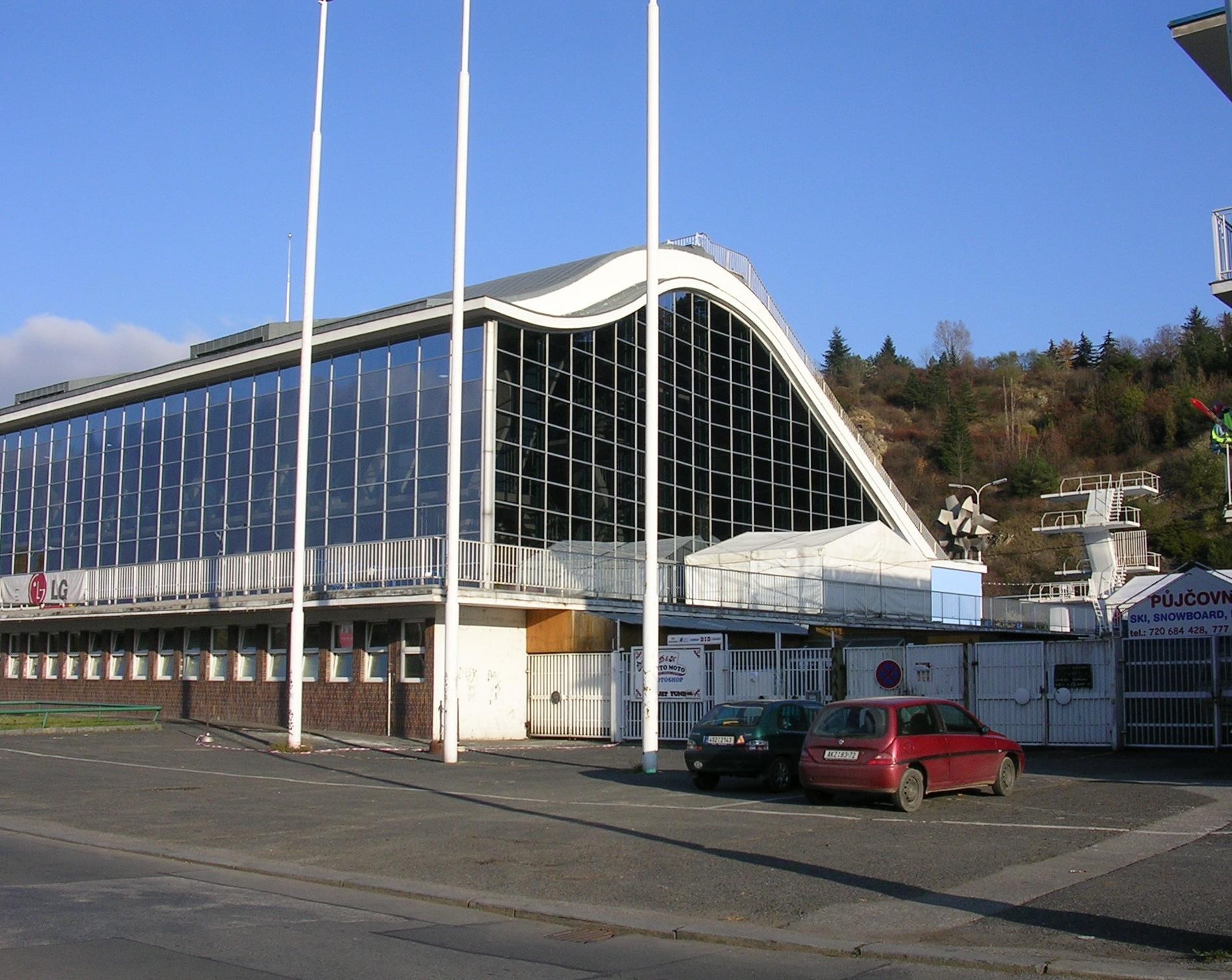 Podolí, Prague.